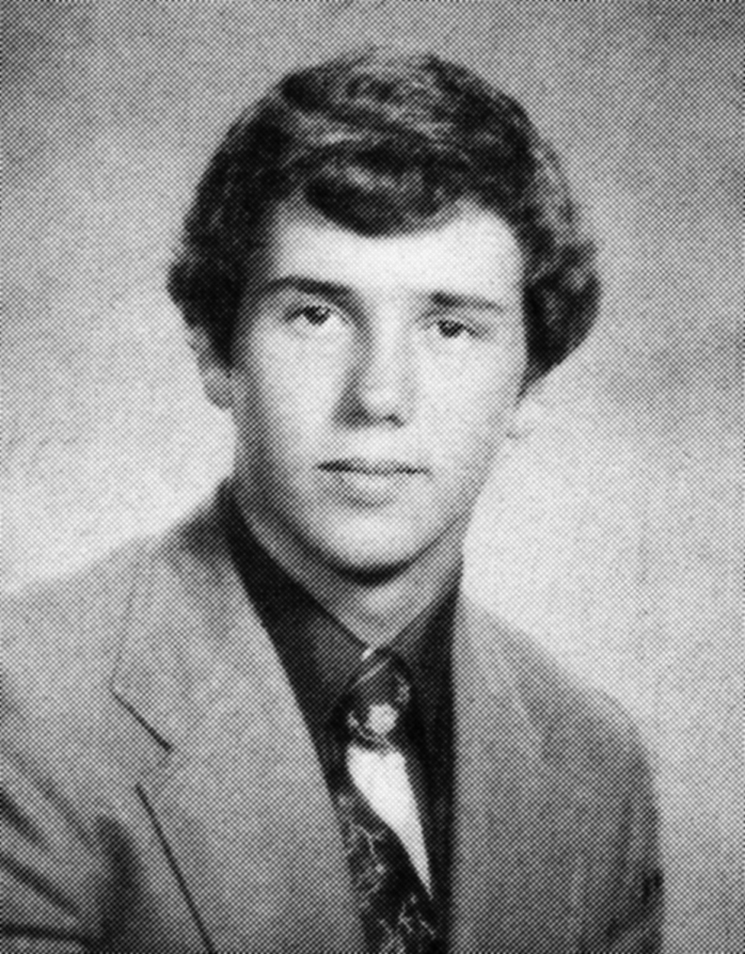 Mike Pence in the 1977 edition of Log, a yearbook produced by Columbus North High School.